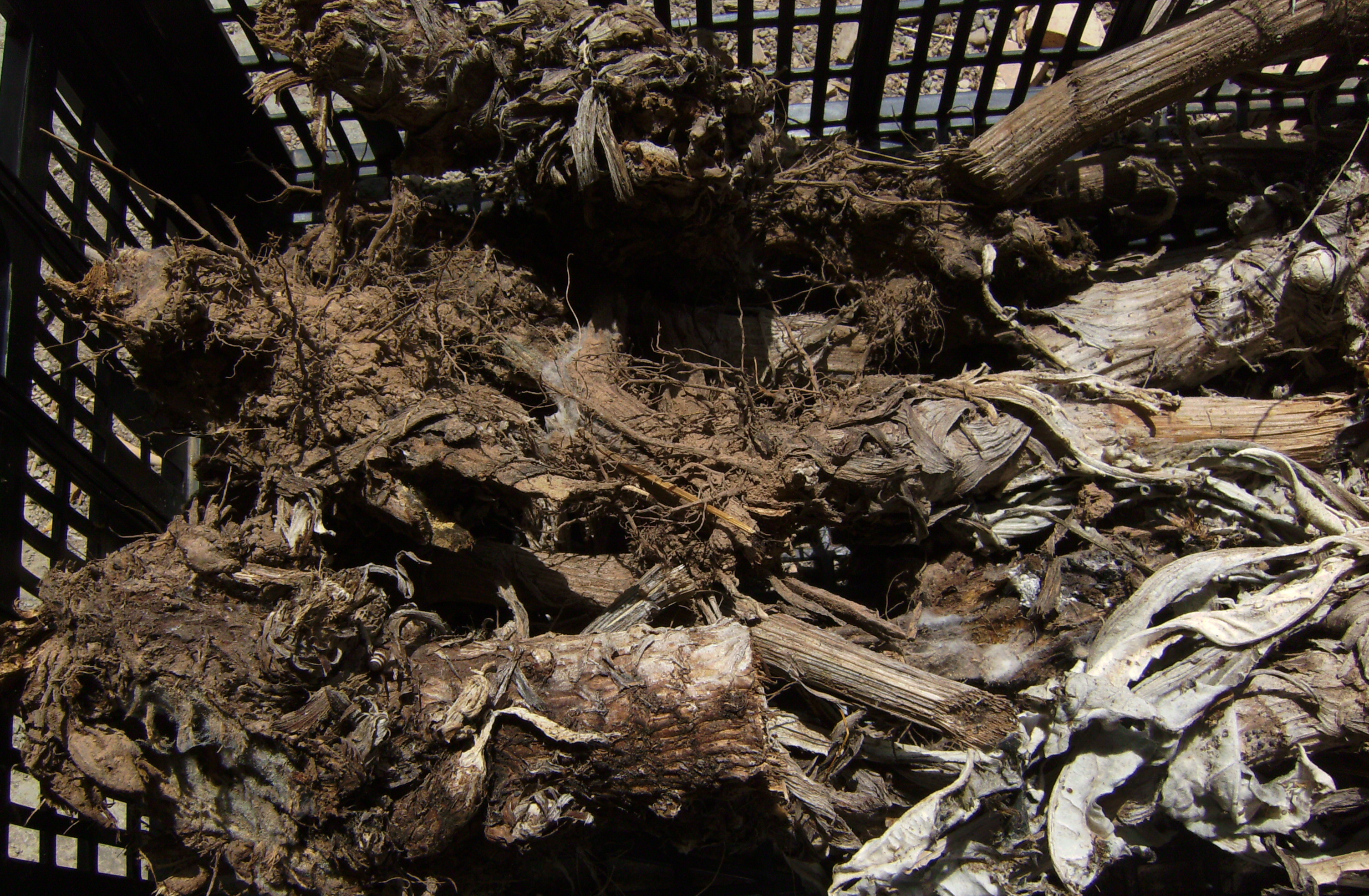 Artichoke root cuttings, ready for plant propagation, Castelltallat, Catalonia